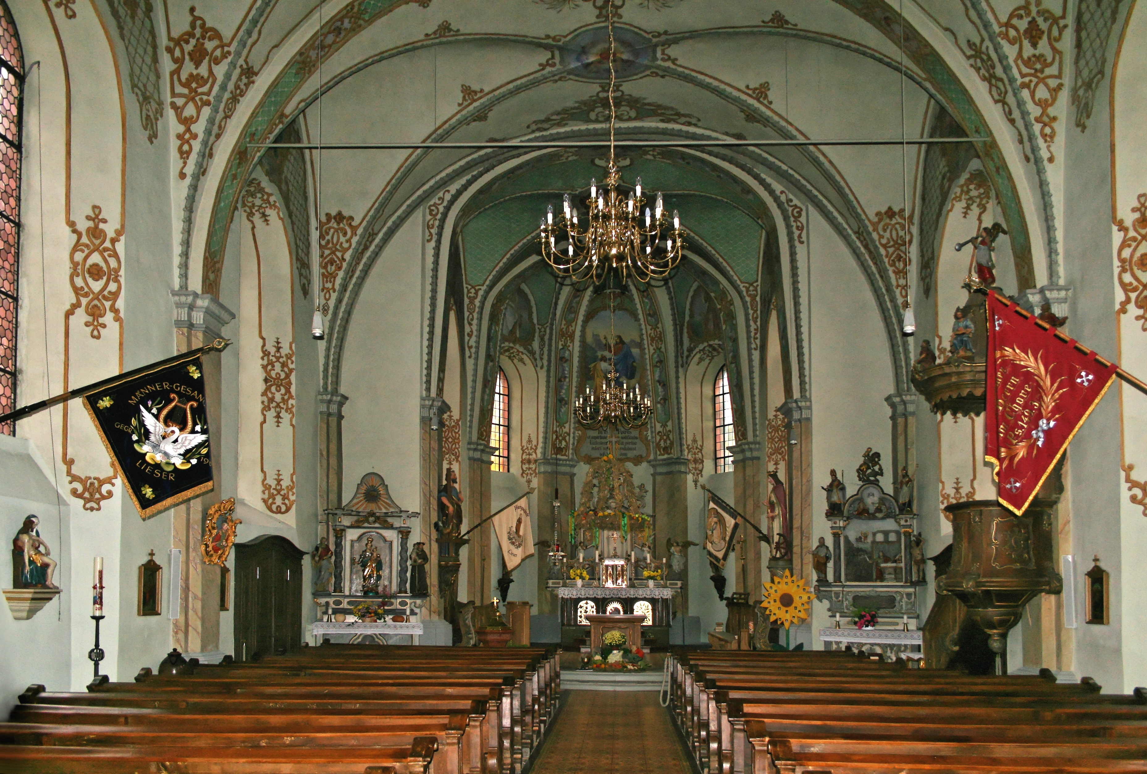 Interiour of the church St. Peter in Lieser